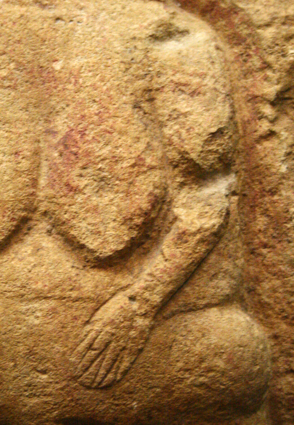 detail of the Venus of Laussel, picture of the original kept in Bordeaux museum, France